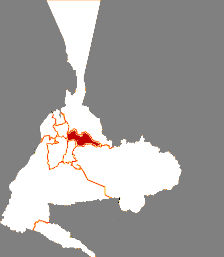 Location of Shuimogou District in Urumqi City, China